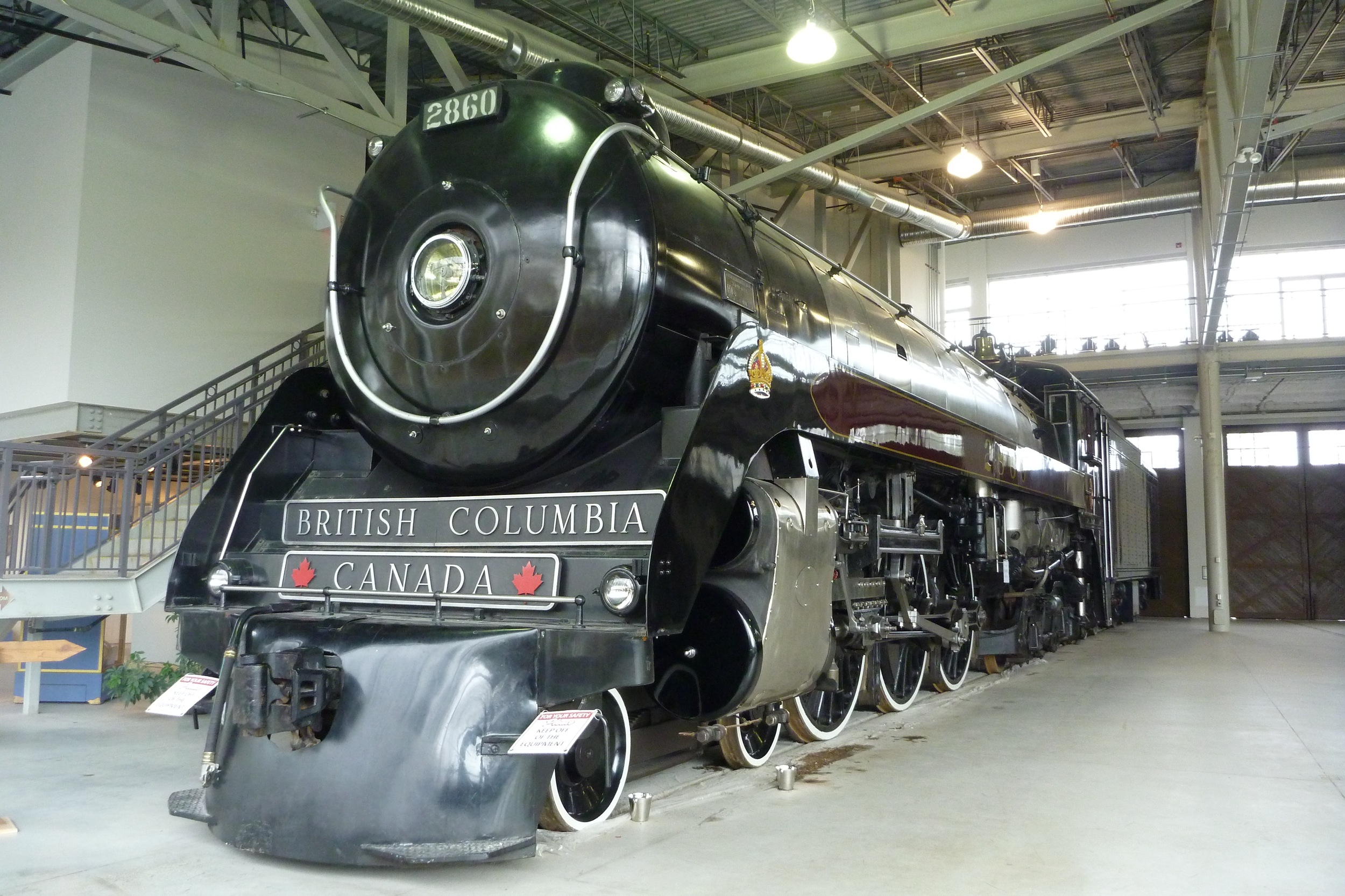 The Royal Hudson engine at the West Coast Railway Heritage Park, Squamish.